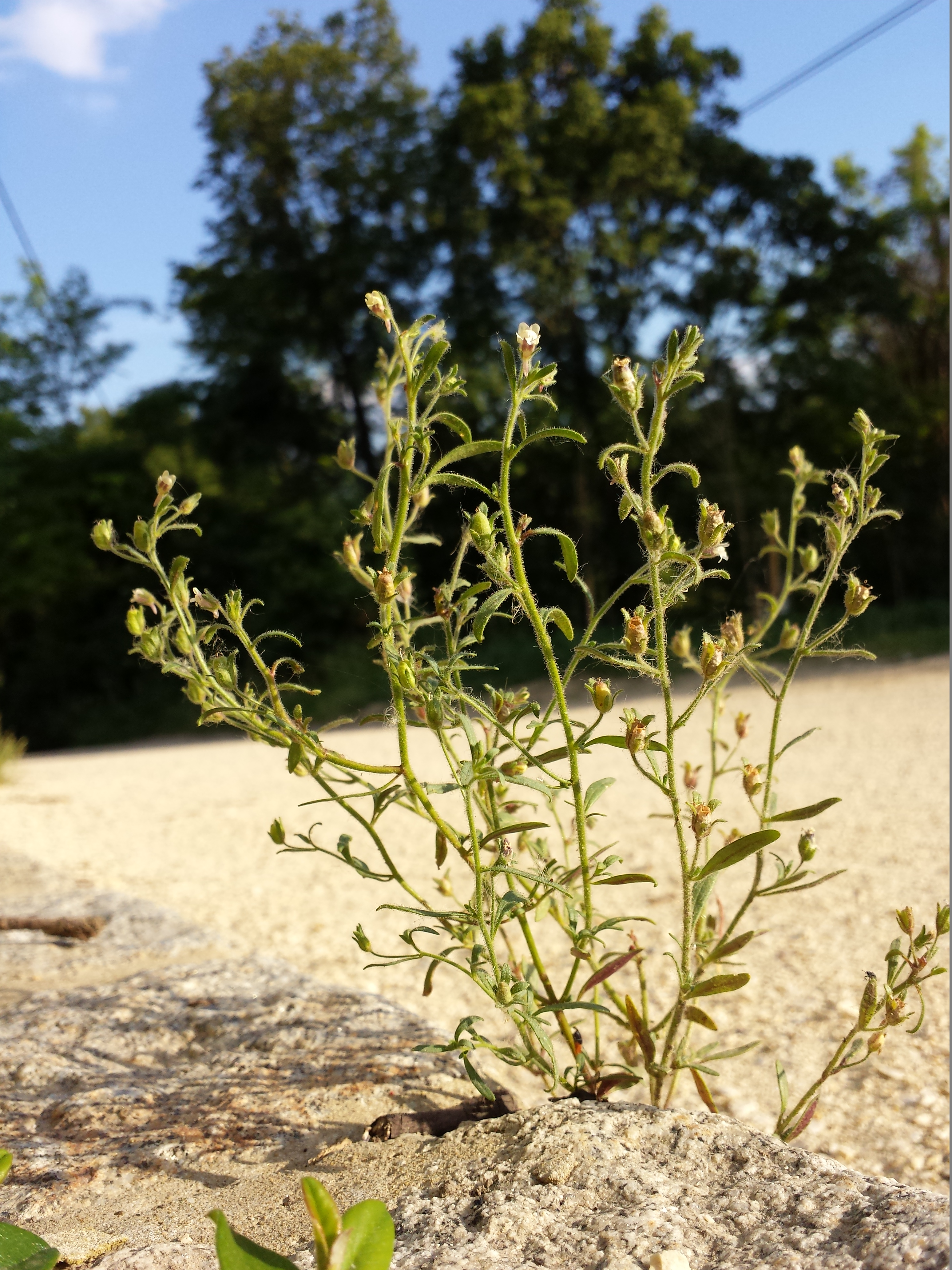 Habitus Taxon: Microrrhinum minus (sensu Fischer et al. EfÖLS 2008 ISBN 978-3-85474-187-9) Location: Klausgraben on Bisamberg, district Korneuburg, Lower Austria - ca. 250 m a.s.l. Habitat: crack within road coating